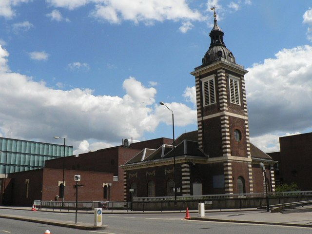 City parish churches: St. Benet Paul's Wharf, near to City of London, Great Britain. At the junction of Queen Victoria Street and White Lion Hill. Rebuilt by Christopher Wren, following the great fire, in 1677-85.